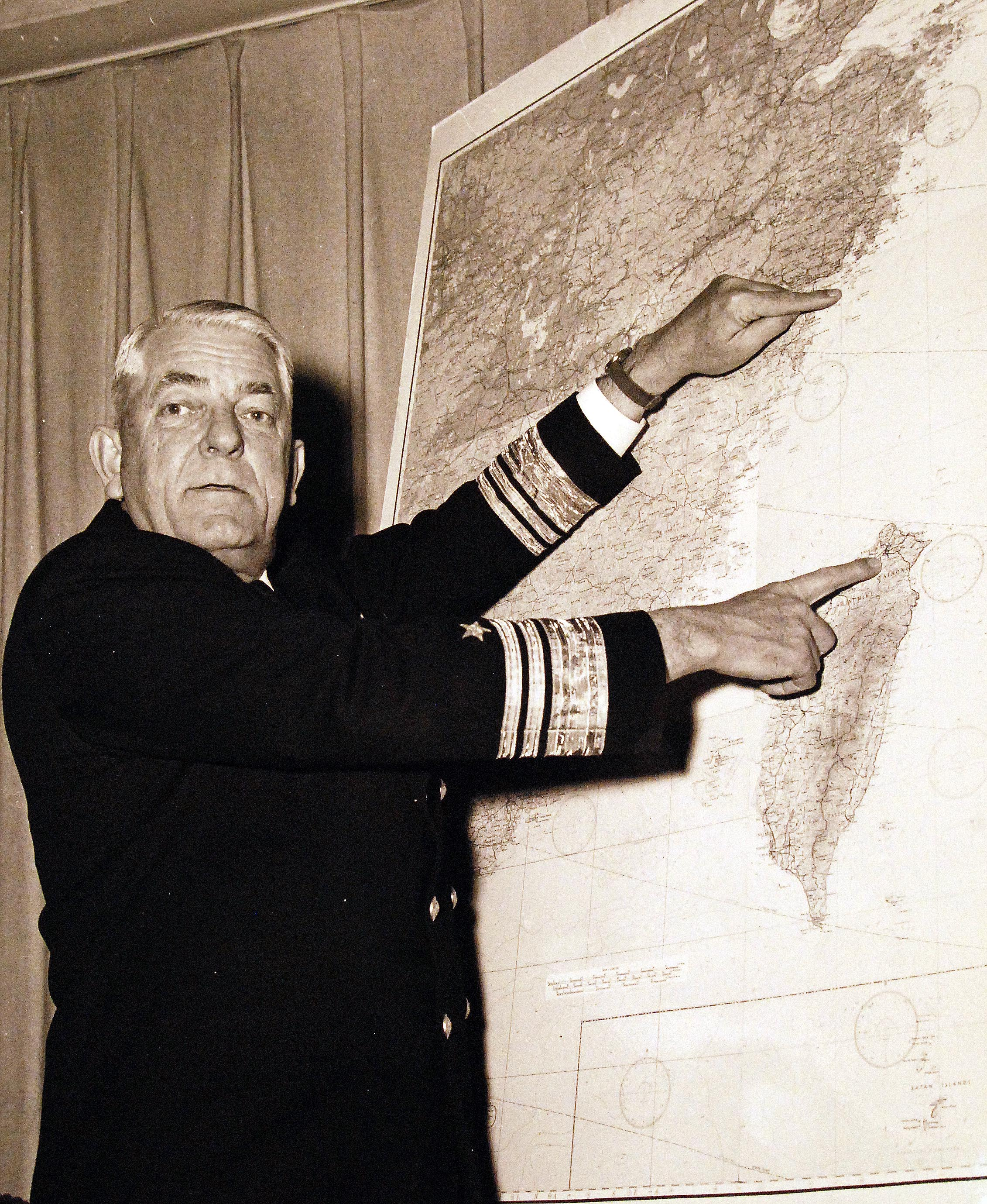 Vice Admiral Robert P. Briscoe, Deputy Chief of Naval Operations, Fleet Operations and Readiness, holding a press-conference at the Pentagon on the evacuation of the Tachen Islands, February, 2 1955. Official U.S. Navy photograph, now in the collections of the National Archives. This collection houses all U.S. Navy and Marine Corps imagery in RG 330-PS, (Department of Defense) Press Photographs from 1950 to 1960.